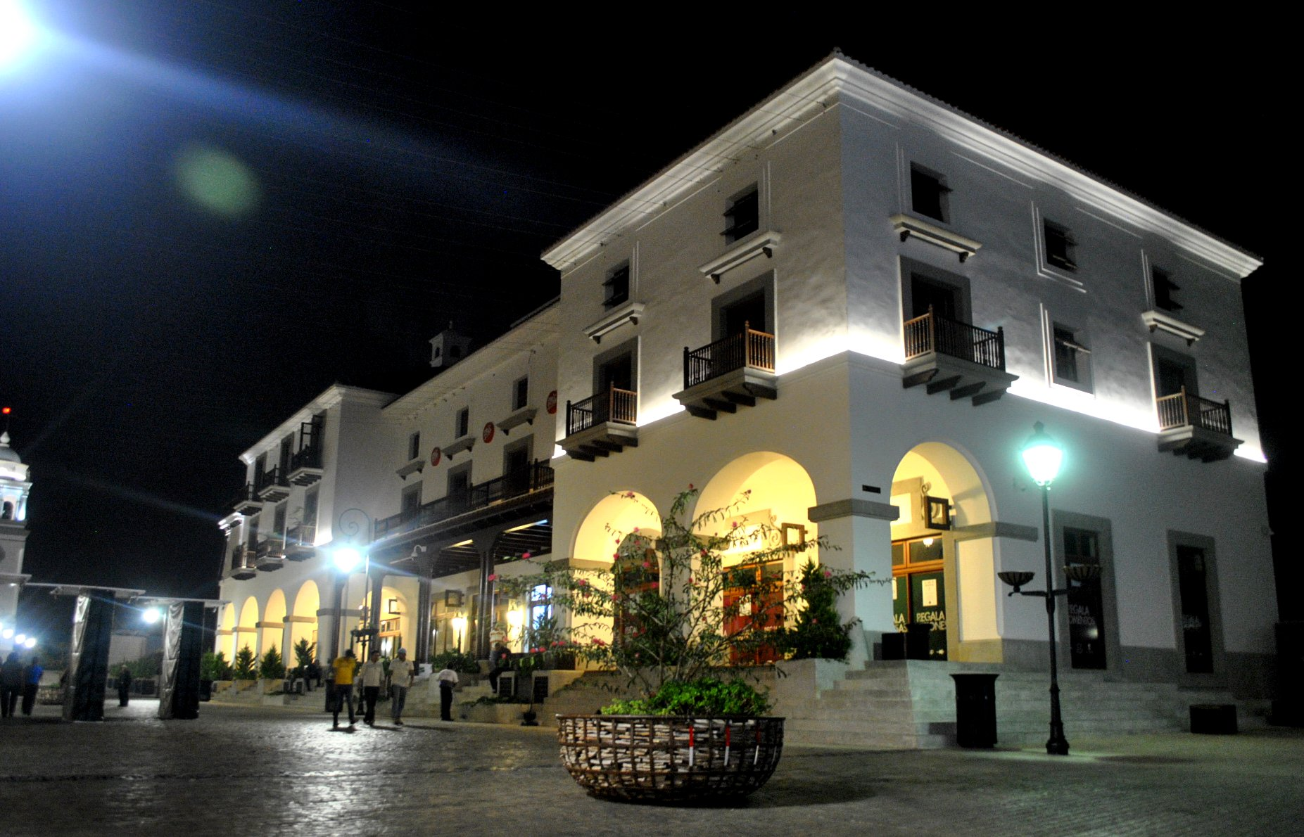 Guatemala City at night